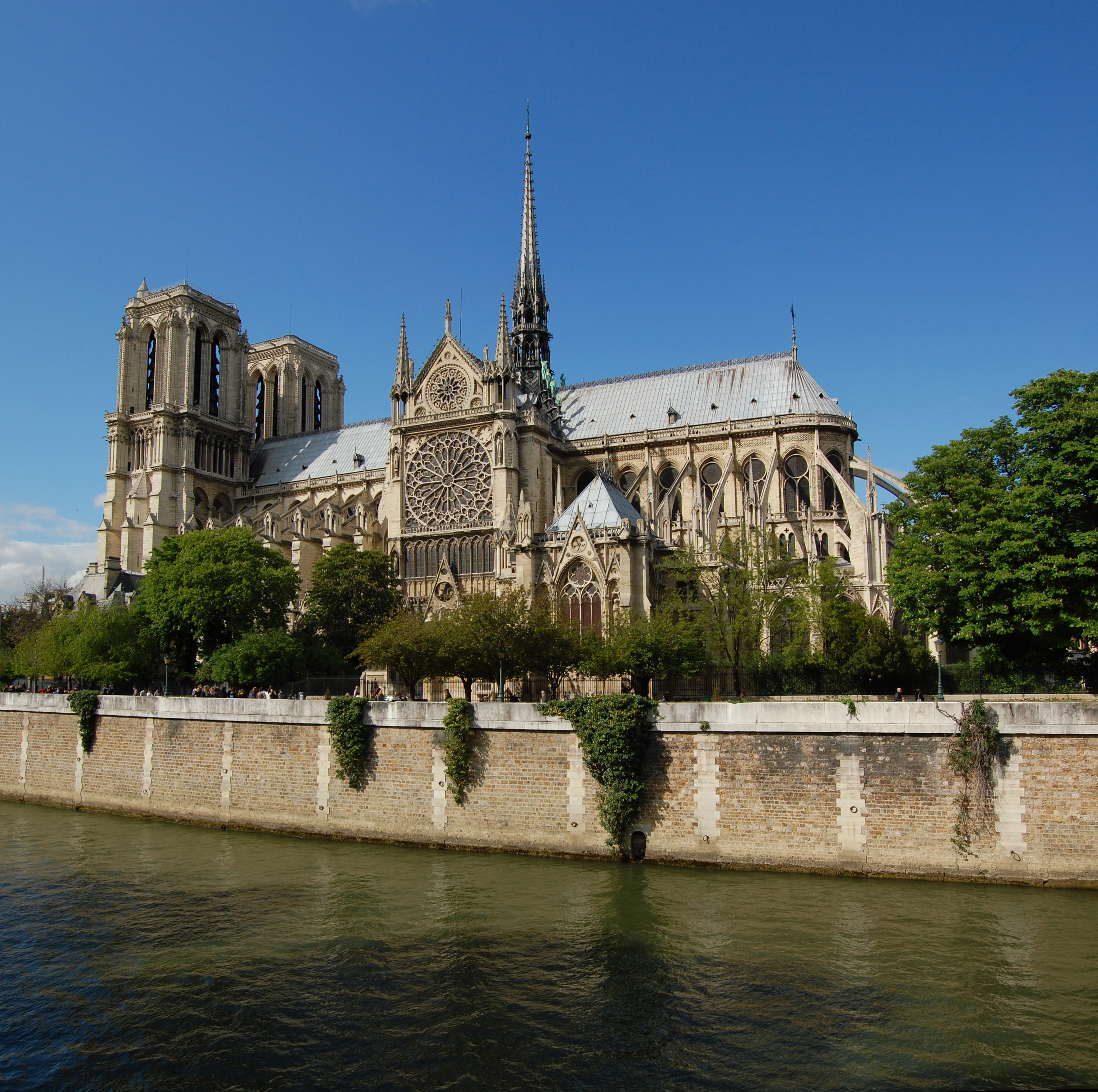 Notre-Dame de Paris (Gothic cathedral), south facade, view from the Seine